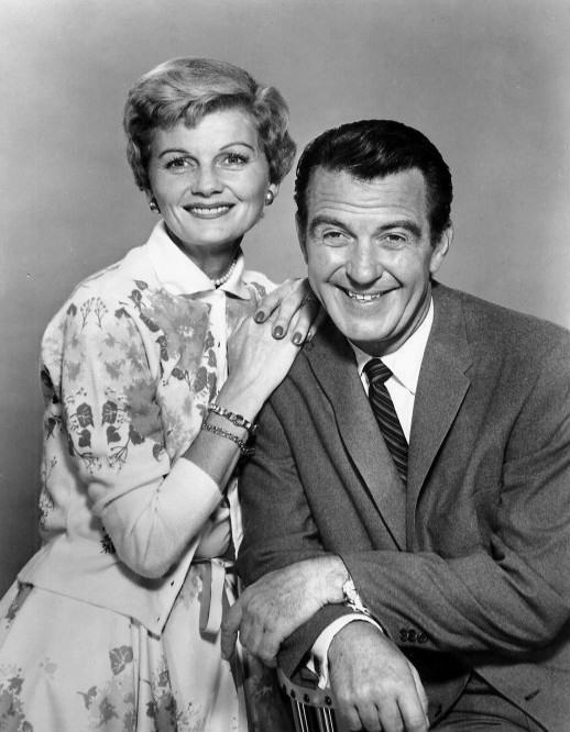 Photo of Barbara Billingsley and Hugh Beaumont as June and Ward Cleaver from the television program Leave it to Beaver.